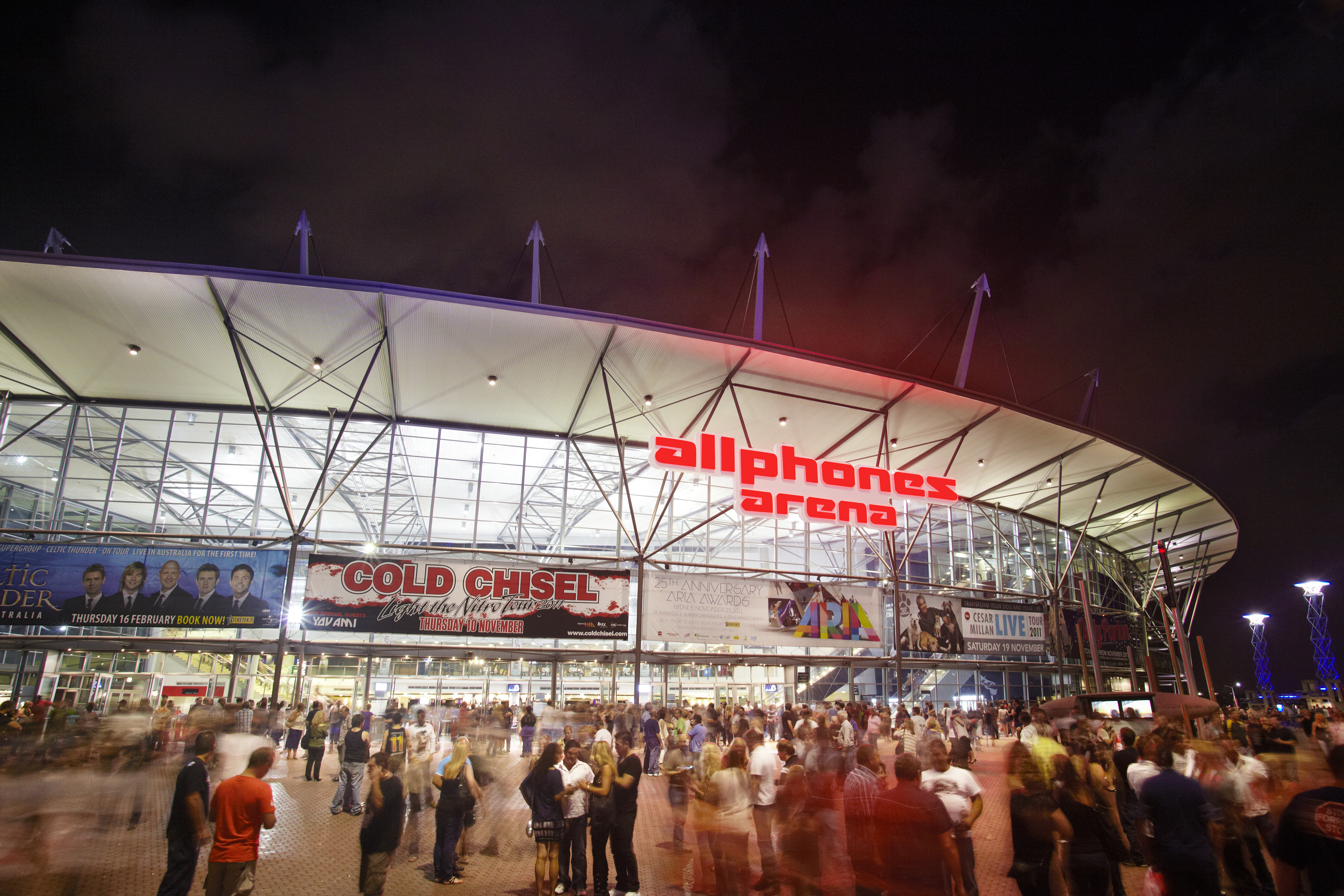 Offering Seven flexible venues accommodating from 50 to 21,000 people, Allphones Arena also specialises in Conferences, Dinners, Seminars, Special Events and Product launches. Be inspired and supported with Allphones Arena’s in house services including an award winning catering team, industry respected technical department and renowned security services.